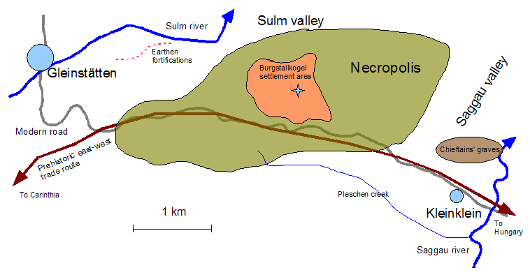 Sketch of the Hallstatt-era Sulm valley necropolis and the Burgstallkogel settlement (Southern Styria, Austria)